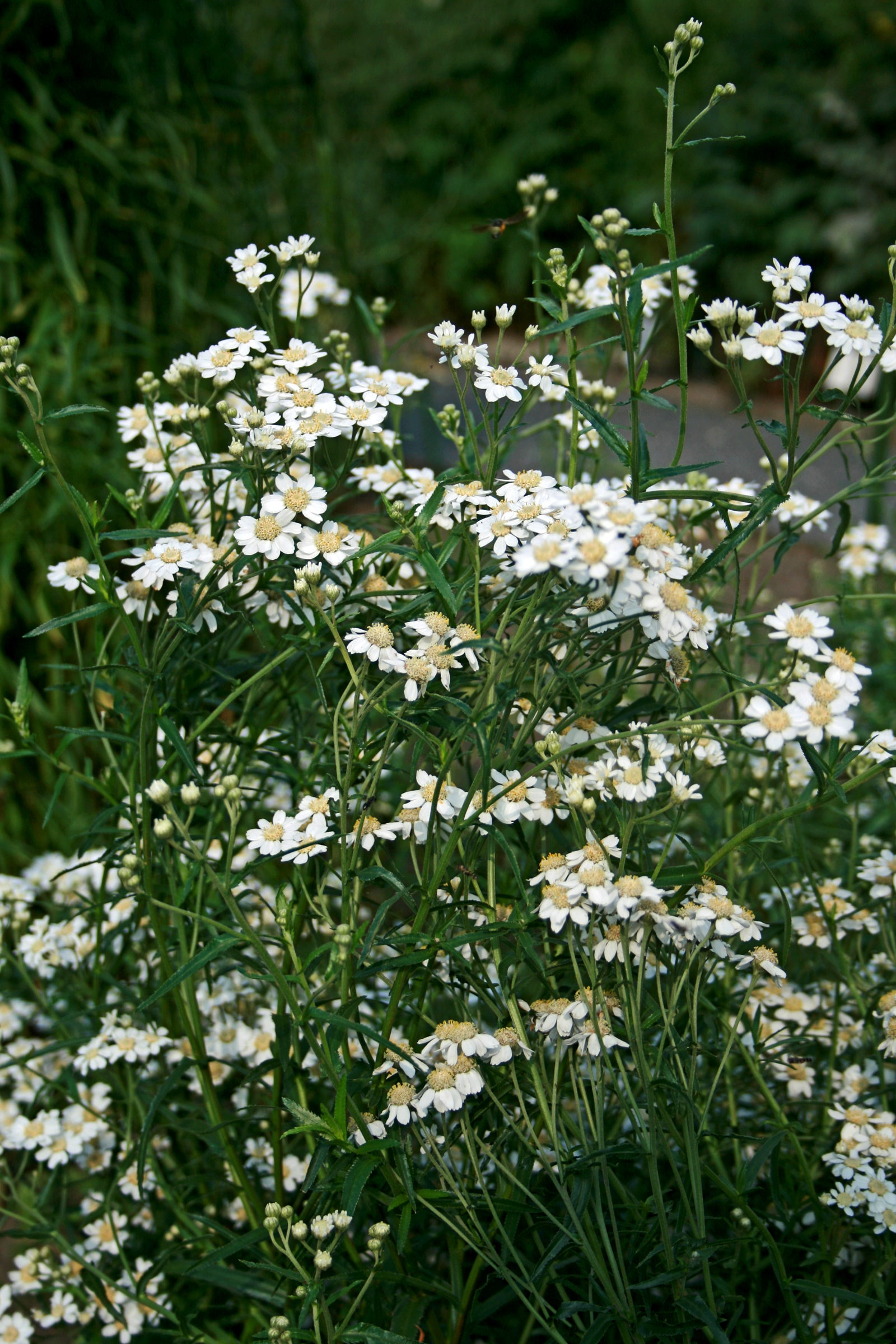 Sneezewort, Achillea ptarmica from Botanical Garden of Charles University in Prague, Czech Republic